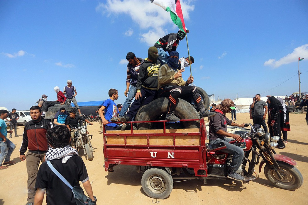 Images from the 2018 Gaza border protests